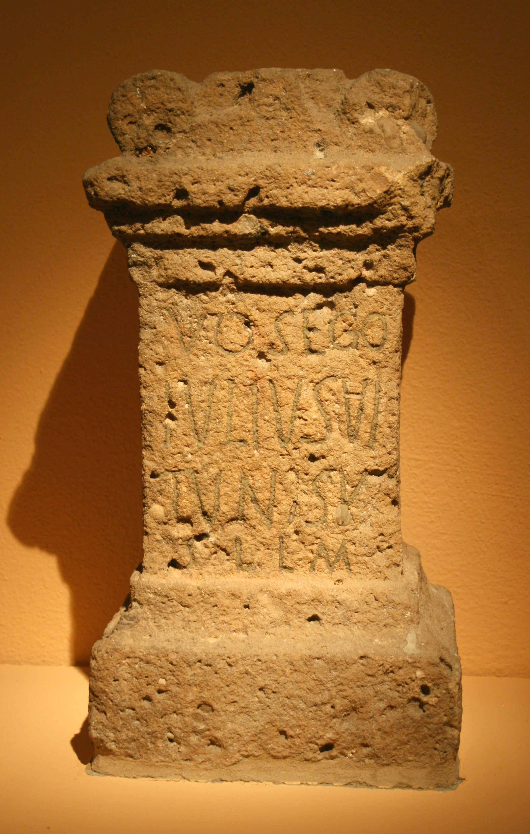 Votive for gallo-roman deity Vosegus AE 1938, 00082, text: Vosego / Iulius Vi/tunis v(otum) / s(olvit) l(ibens) l(aetus) m(erito)